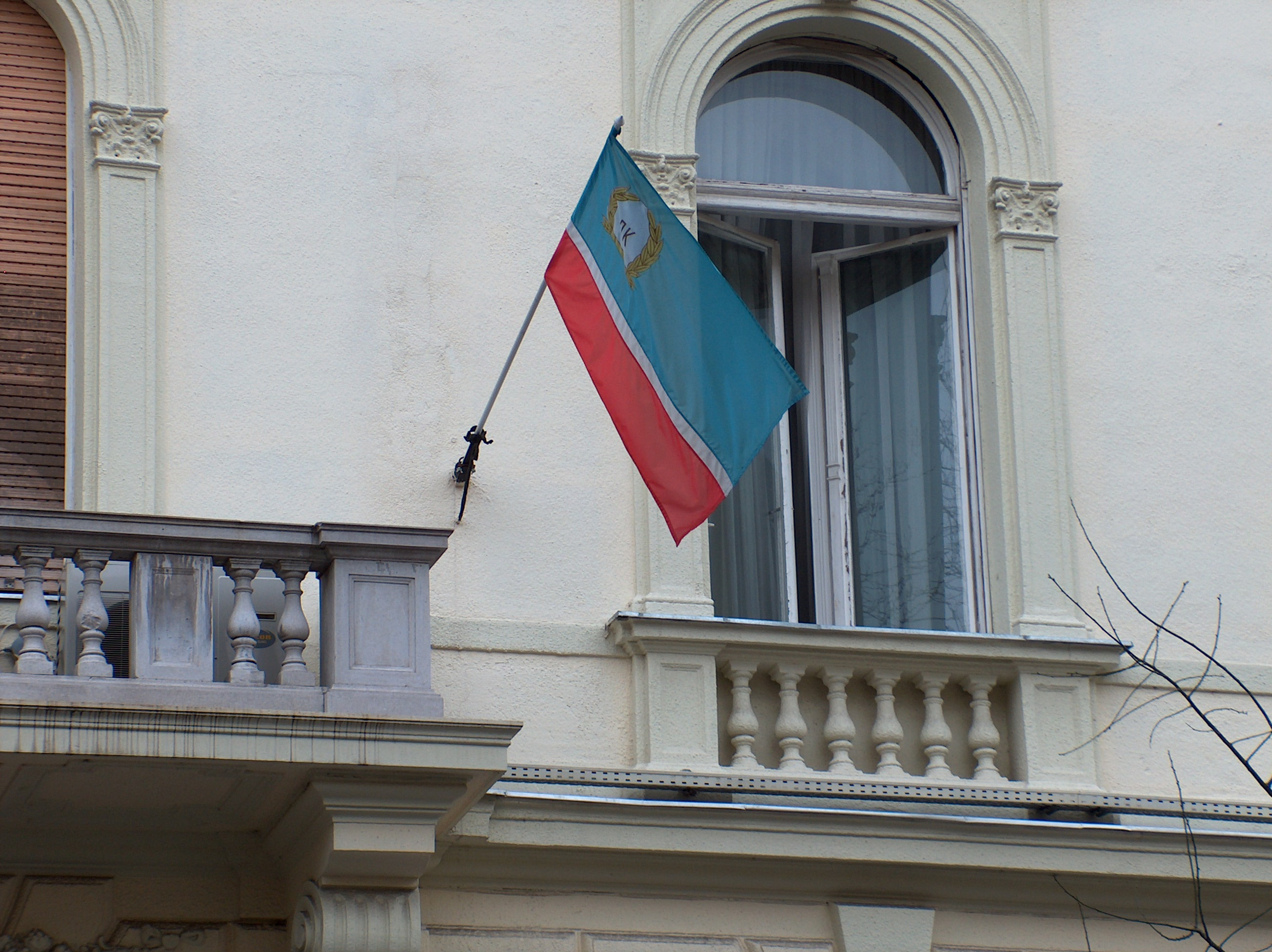 Building and flag of the Danube Commission in Budapest (Benczúr utca 25), Hungary